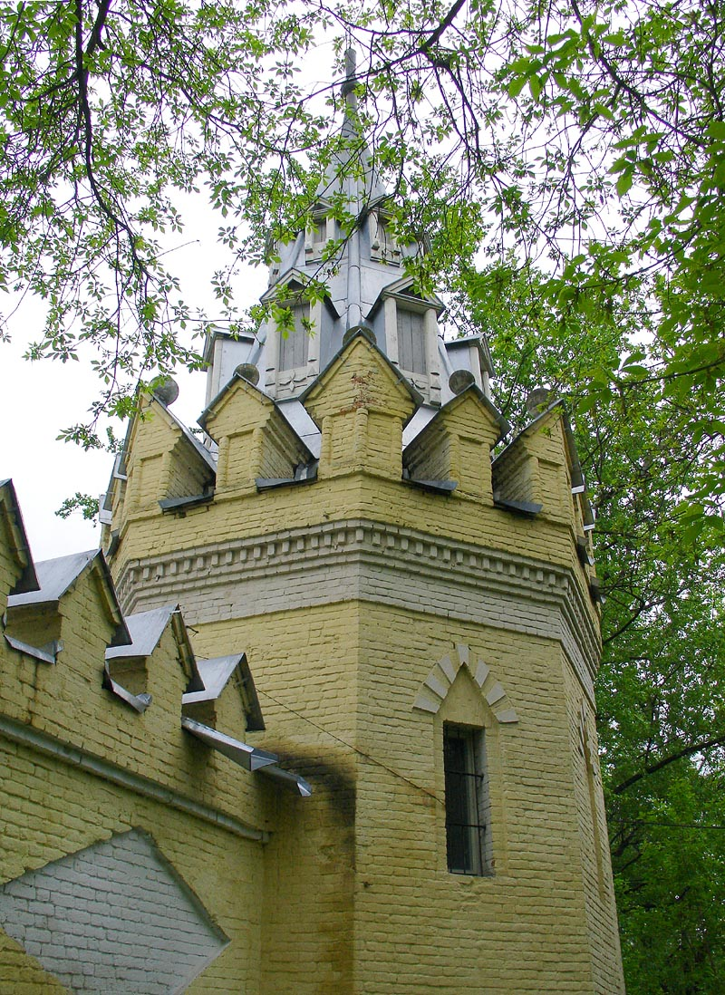 Moscow, Old Believers' Monastery walls, Preobrazhenskoye District